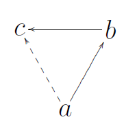 illustration for the transitive relation